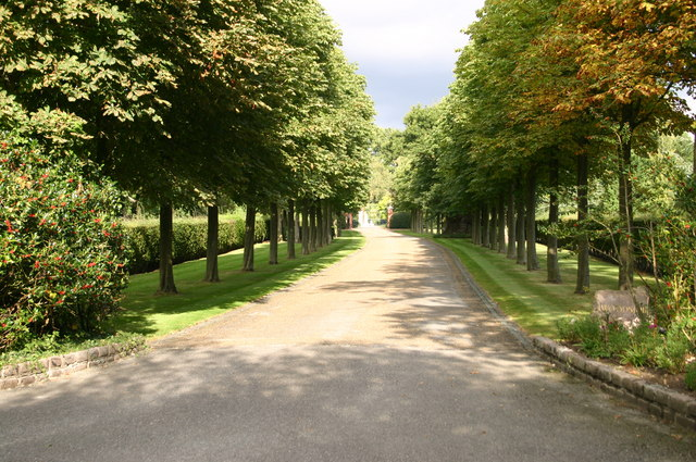 Tree-lined drive to Woodside, near Old Windsor